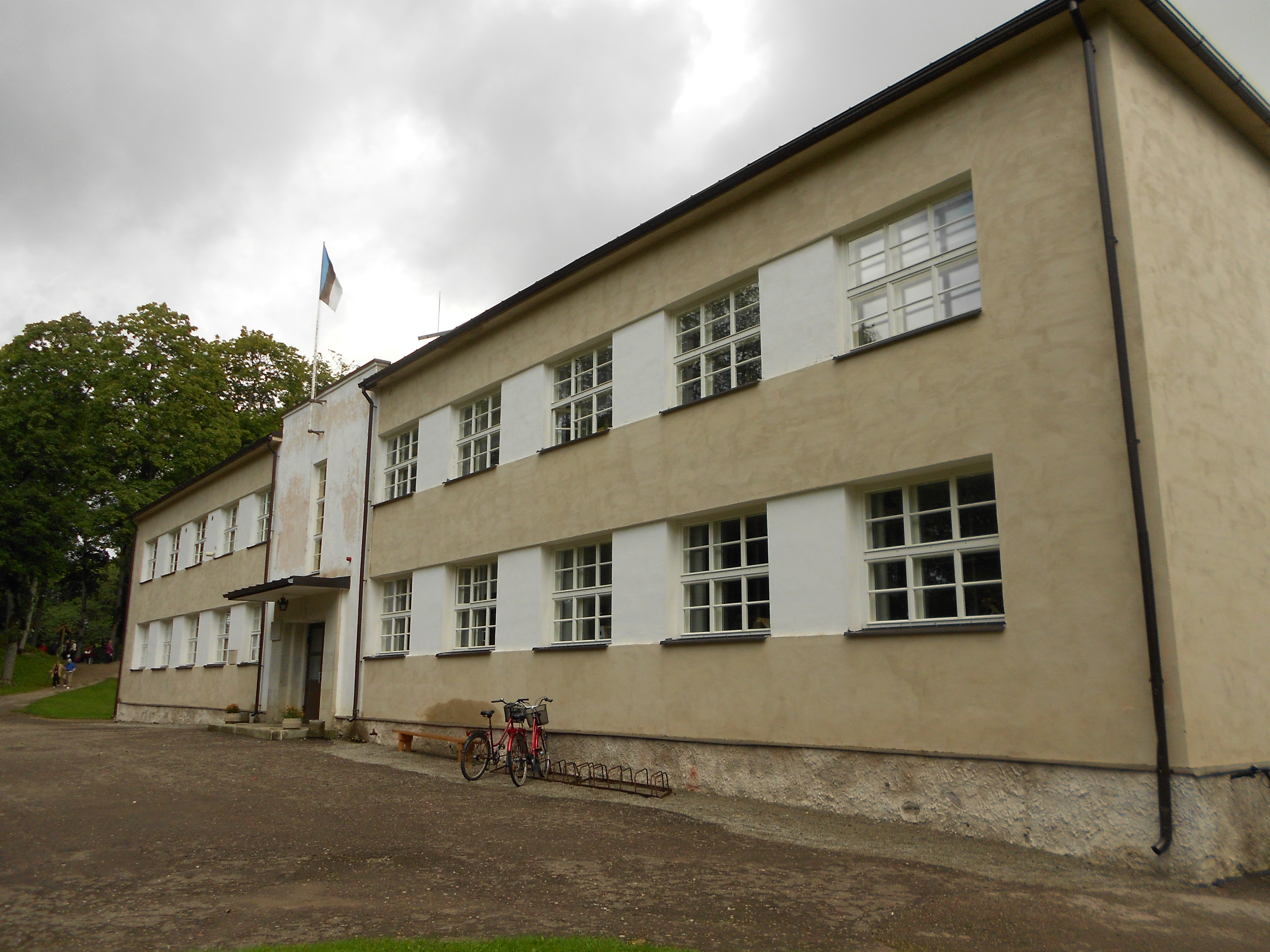 The village primary school in the village of Kaali, Estonia.